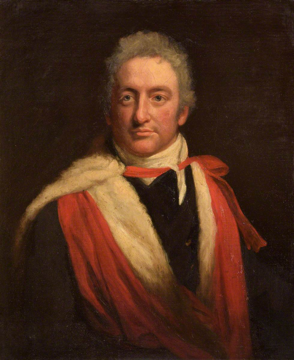 Martin Davy (1763-1839), Master of Gonville & Caius College, Cambridge